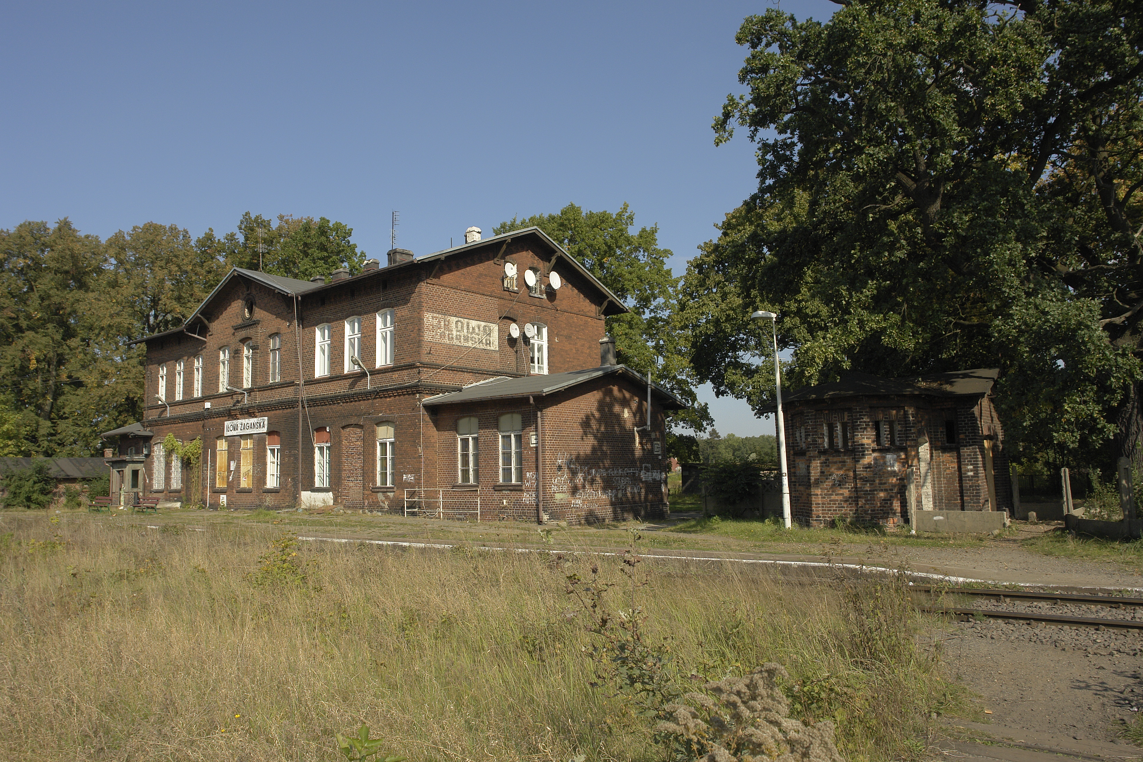 Ilowa Żagańska train station in Iłowa, Poland